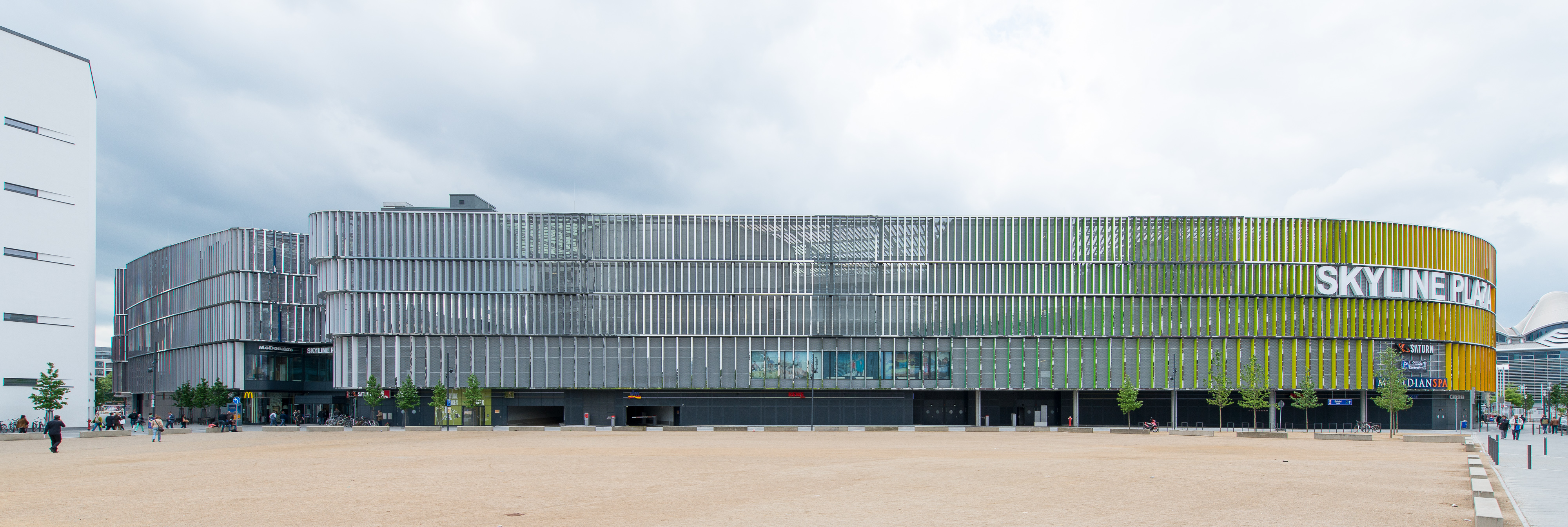 Frankfurt am Main, stretched east side of the Skyline Plaza shopping mall (May 2014)